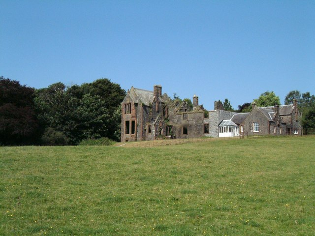 Glenlair House Glenlair House, near Corsock in Dumfries & Galloway, is famous as the home of James Clerk Maxwell who was one of the greatest scientists who has ever lived. To him we owe the most significant discovery of our age - the theory of electromagnetism. He is rightly acclaimed as the father of modern physics. He also made fundamental contributions to mathematics, astronomy and engineering.